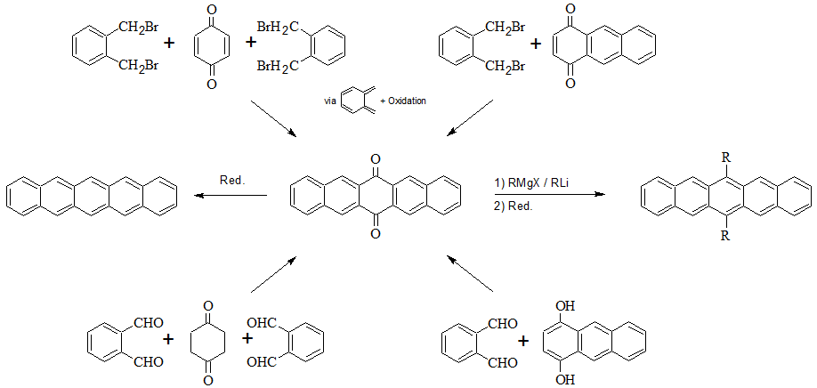 Possible synthesis routes towards pentacenes